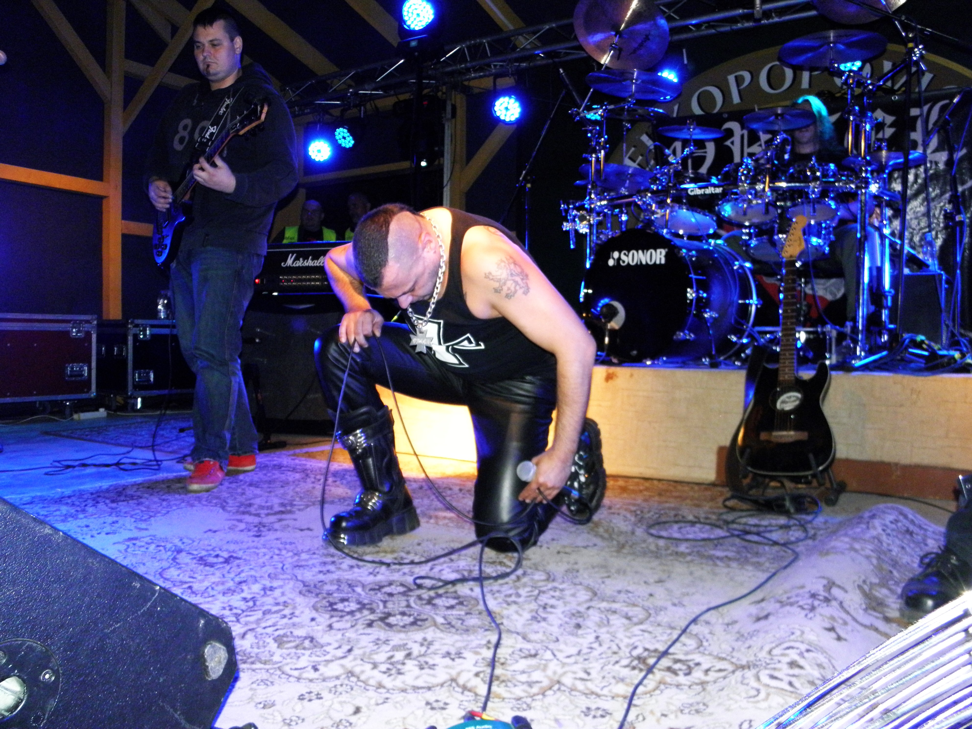 Czech music group Ortel, concert in Runway Club near Hradec Kralove.